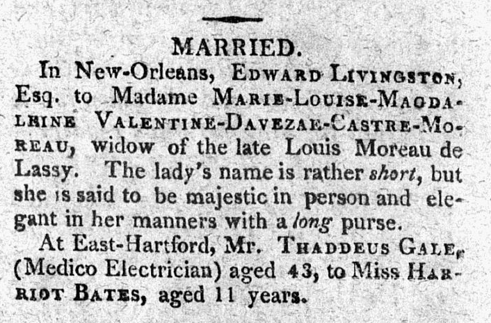 Matrimony notice